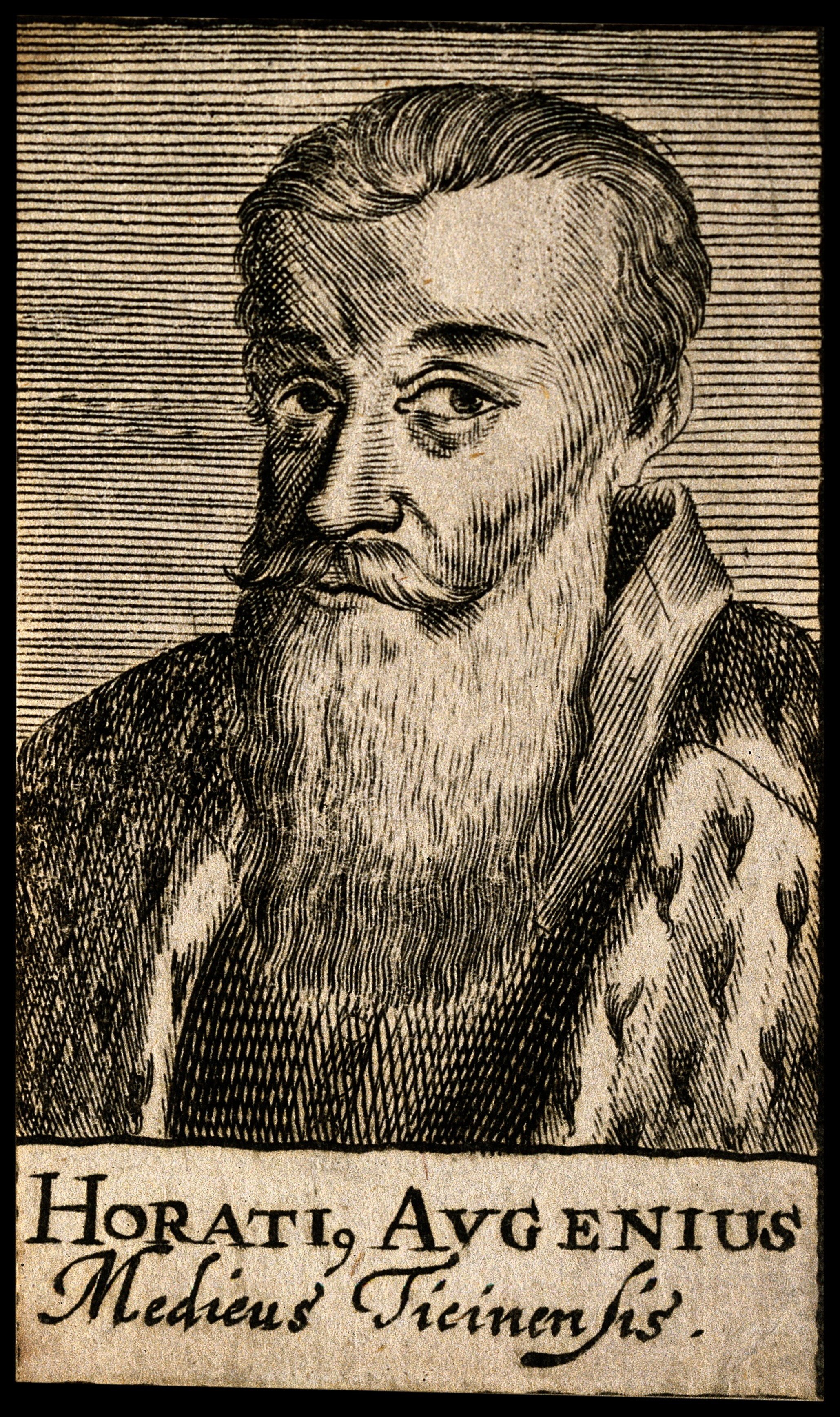 Horatius Augenius. Line engraving, 1688. Iconographic Collections Keywords: portrait prints; Orazio Augenio; engravings; augenio, orazio, 1527-1603